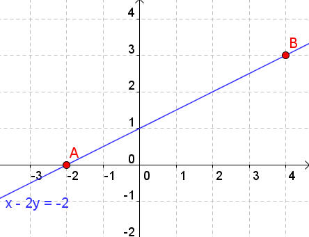 straight line for two points